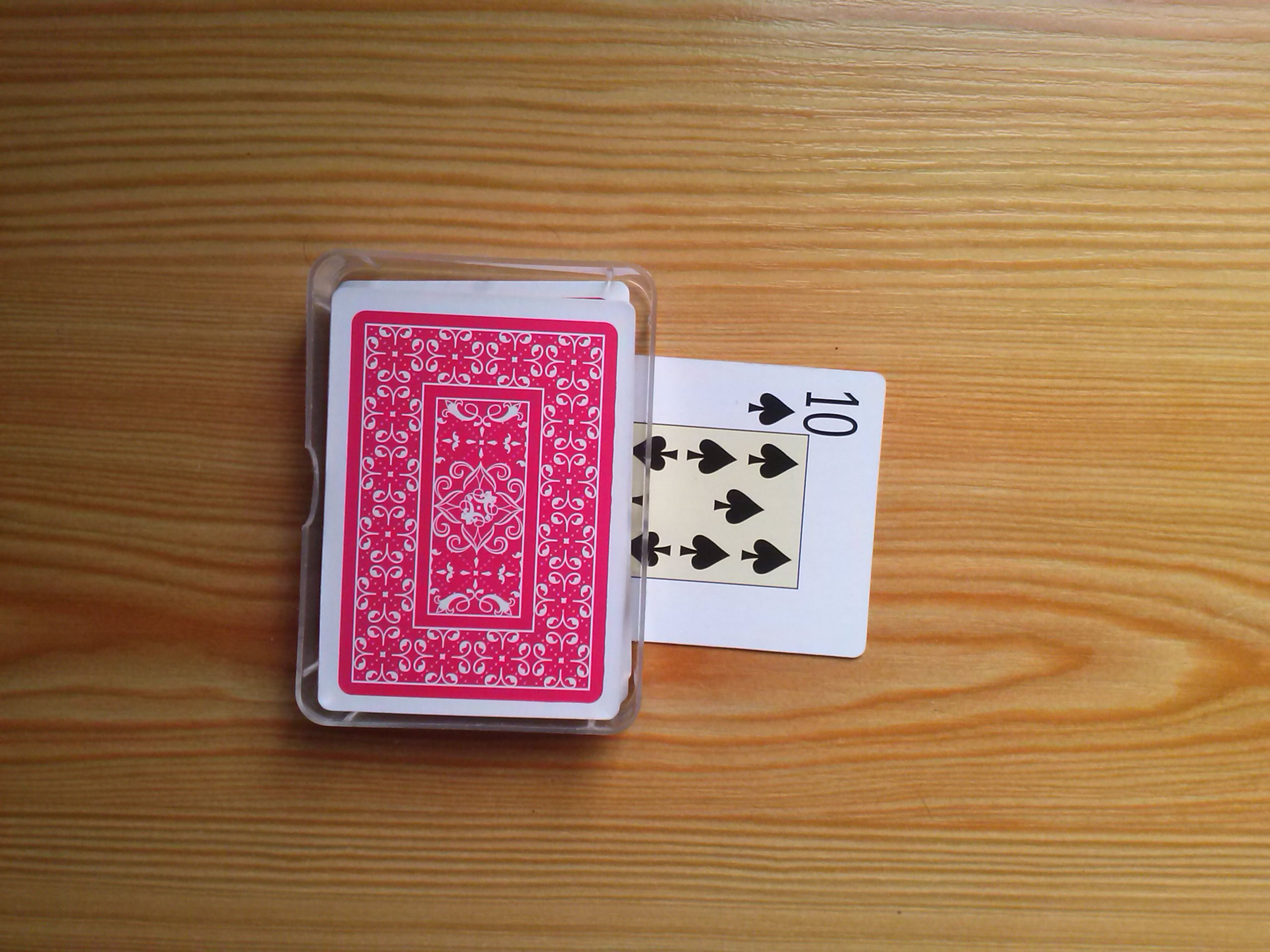 In the picture we can see a card under a deck in 90ª, as in Durak game as well as another card beside it low and of the same suit.